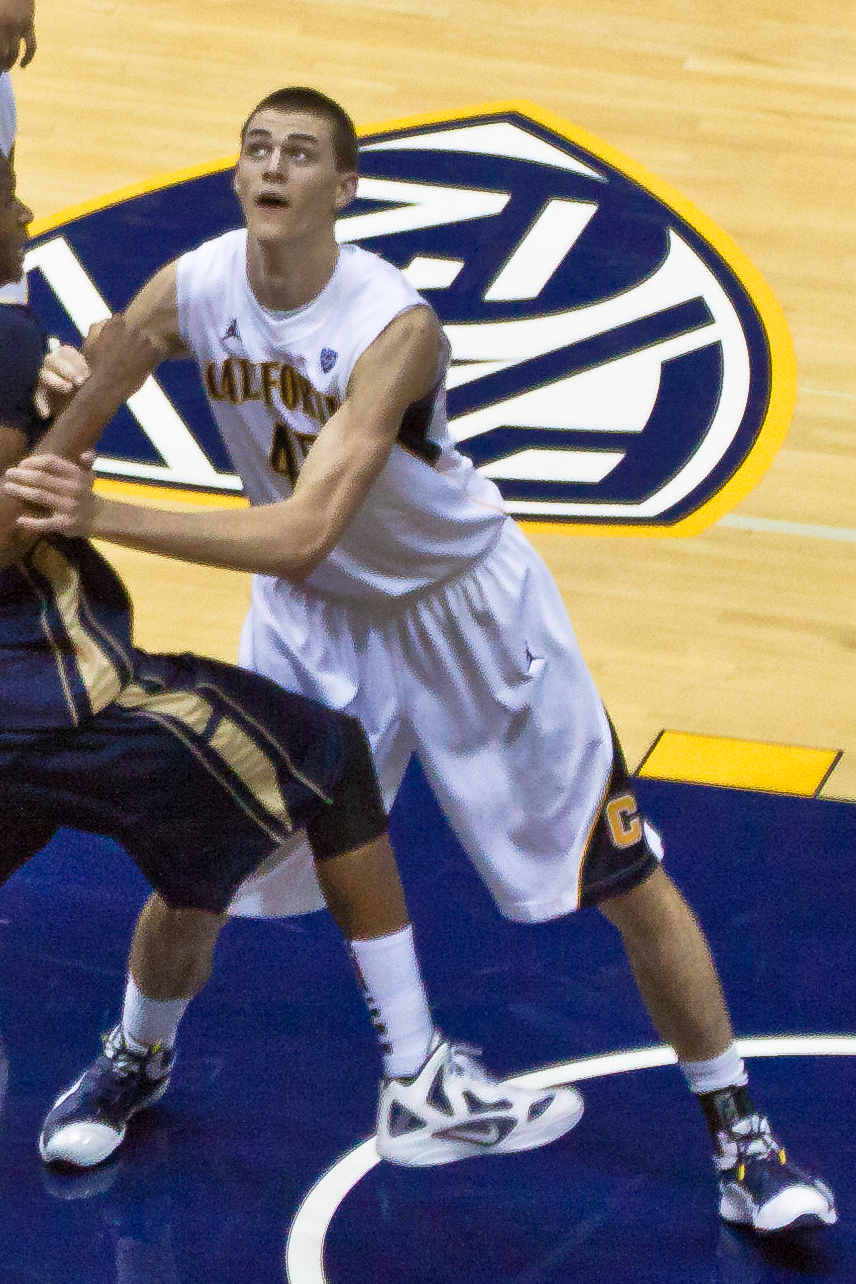 My George Washington University Colonials made a rare trip to the Bay Area to play the University of California Golden Bears at the Haas Pavilion in Berkeley. The two teams exchange baskets until midway through the first half when the 24th ranked Bears went on a huge run and never looked back winning 81-54. Thanks to the GW Alumni Association as well as Athletic Director Patrick Nero for arranging tickets for us and other GW alumni.